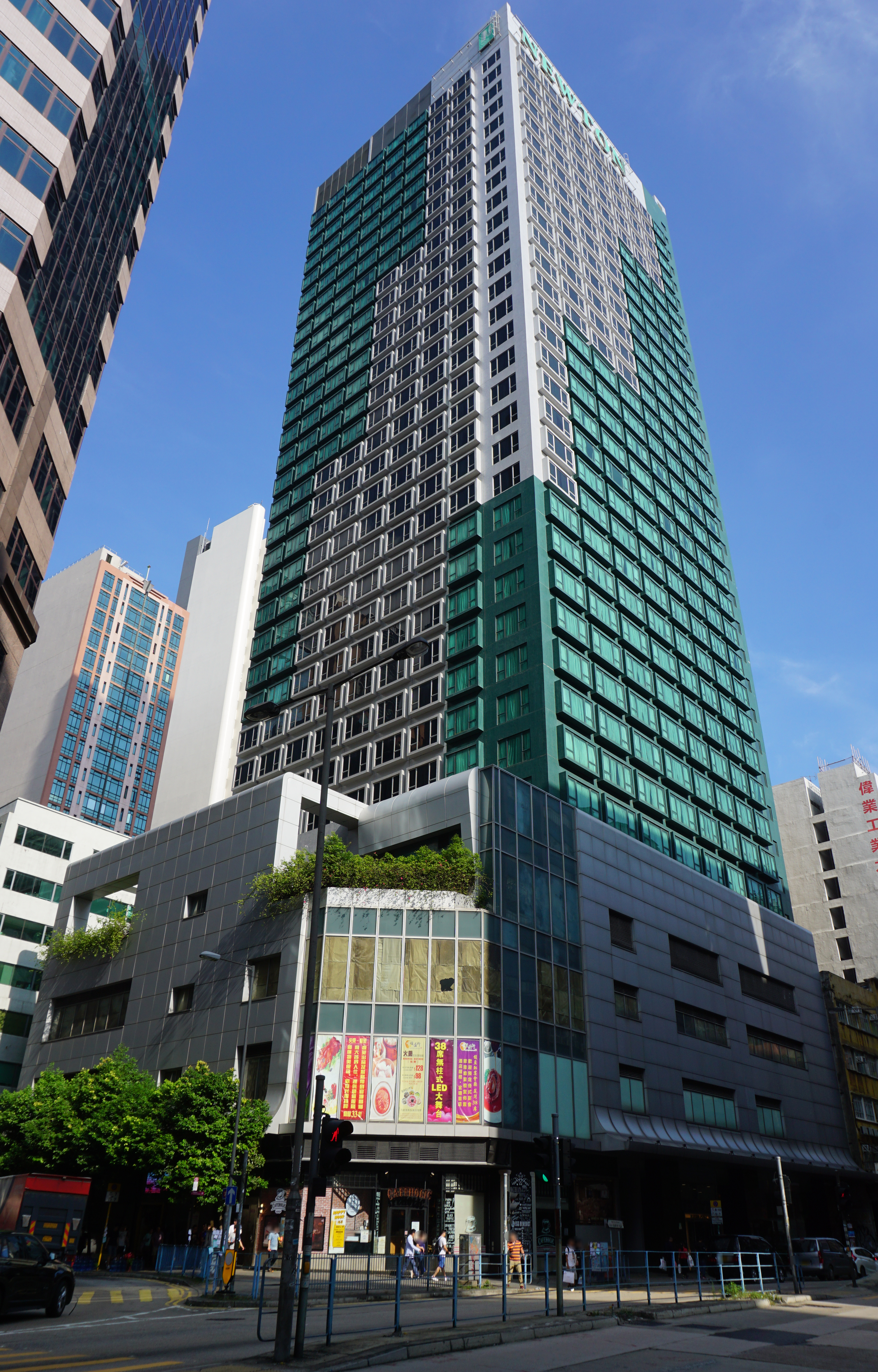 Newton Place Hotel in Ngau Tau Kok, Hong Kong.